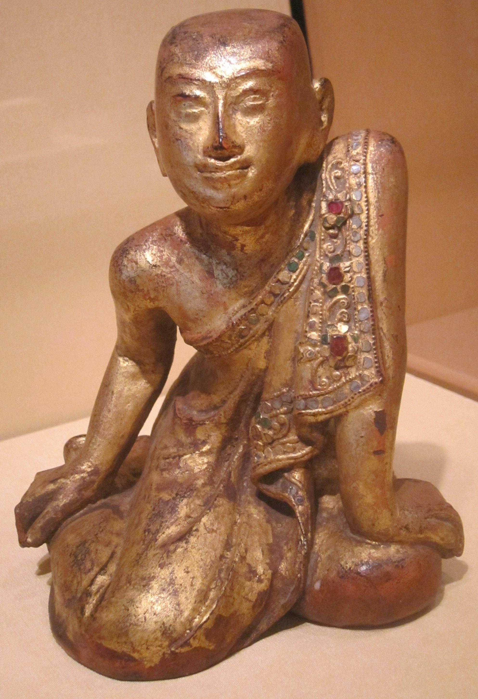 Sariputta from Myanmar (Burma), 19th century, lacquered and gilded carved wood with glass, Honolulu Academy of Arts